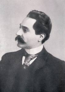 Giuseppe Martucci (January 6th, 1856, Capua, Italy – June 1st, 1909, Naples) was an Italian composer.